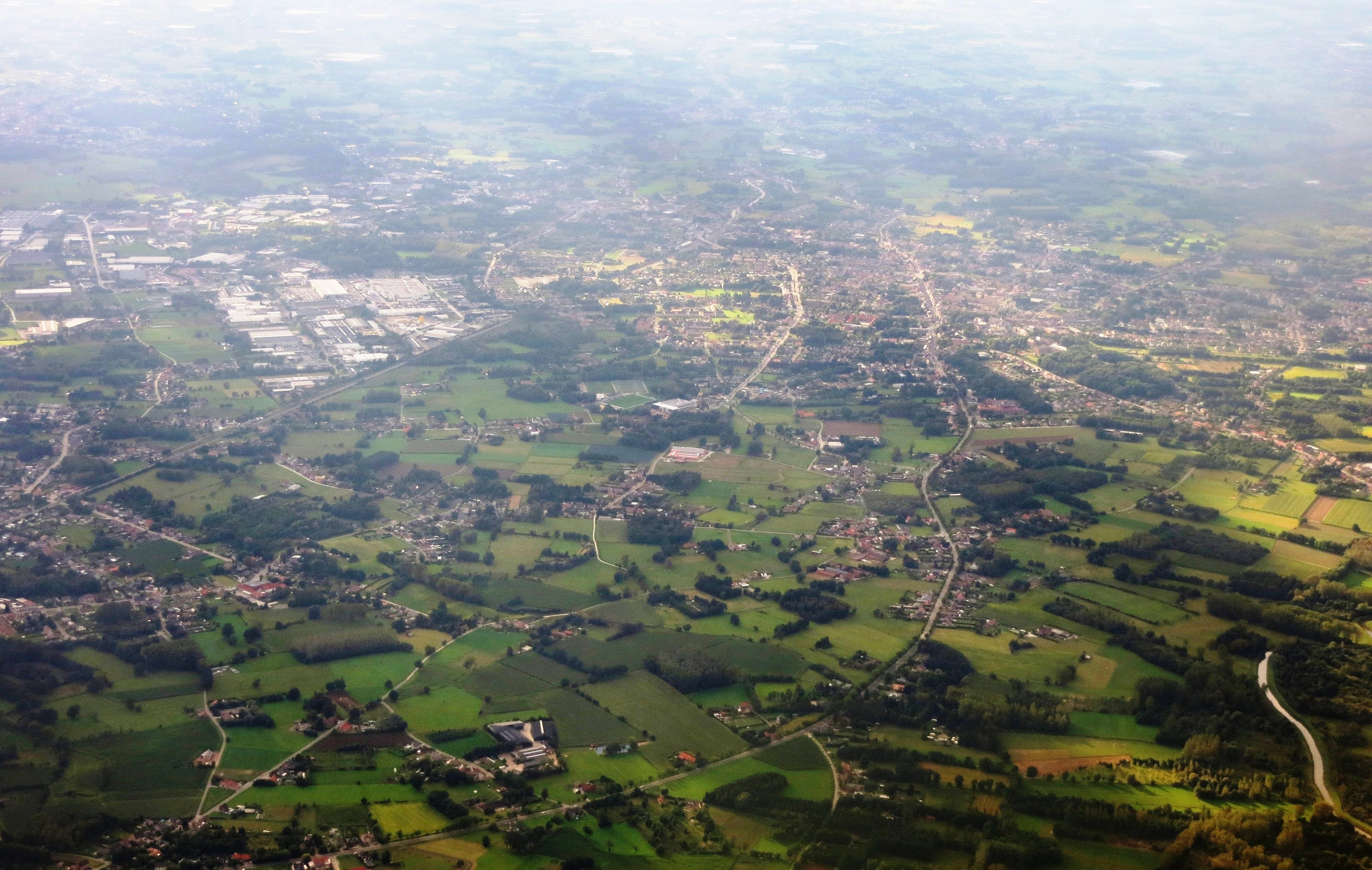 Aerial view from the (south)east towards (north)west, over the Hageland-Leuven region of northern Belgium. This municipality lies north of Brussels and west of Leuwen.